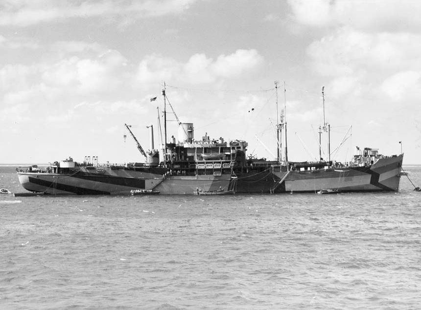 The U.S. Navy seaplane tender USS Hamlin (AV-15) at anchor in Tanapag Harbor, Saipan, on 13 February 1945. She is painted in Camouflage Measure 32, Design 8Ax.